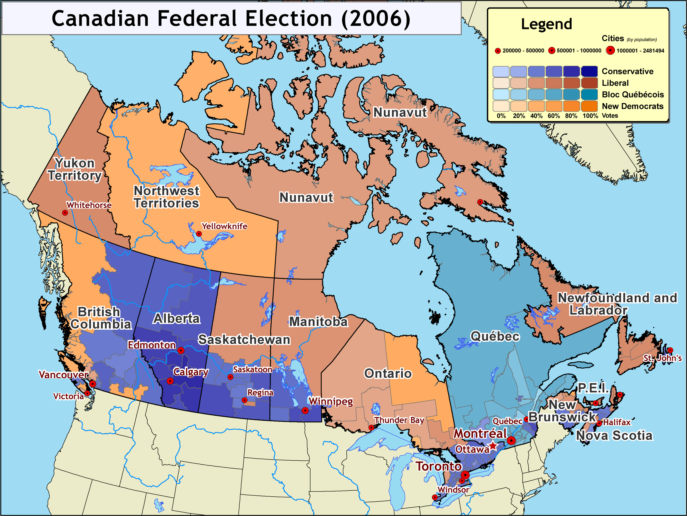 Map of the 2006 Canadian federal election results (January 23, 2006) The Conservative party won a minority government, with Stephen Harper (of Calgary, Alberta) becoming Prime Minister. Alberta is the main stronghold for the Conservative party, with major support also coming from the interior regions of British Columbia, southern Saskatchewan, and Manitoba, as well as southern Ontario. Map created by Kmf164 (January 24, 2006). Map compiled using ArcGIS, Adobe Illustrator, and Adobe Photoshop, and is derived from data sources including: Geogratis - Natural Resources Canada / Elections Canada - Electoral district boundaries. The source data is copyright by the Government of Canada, however is free to use for any purpose, as long as acknowledgement is provided. Elections Canada - Elections results data.